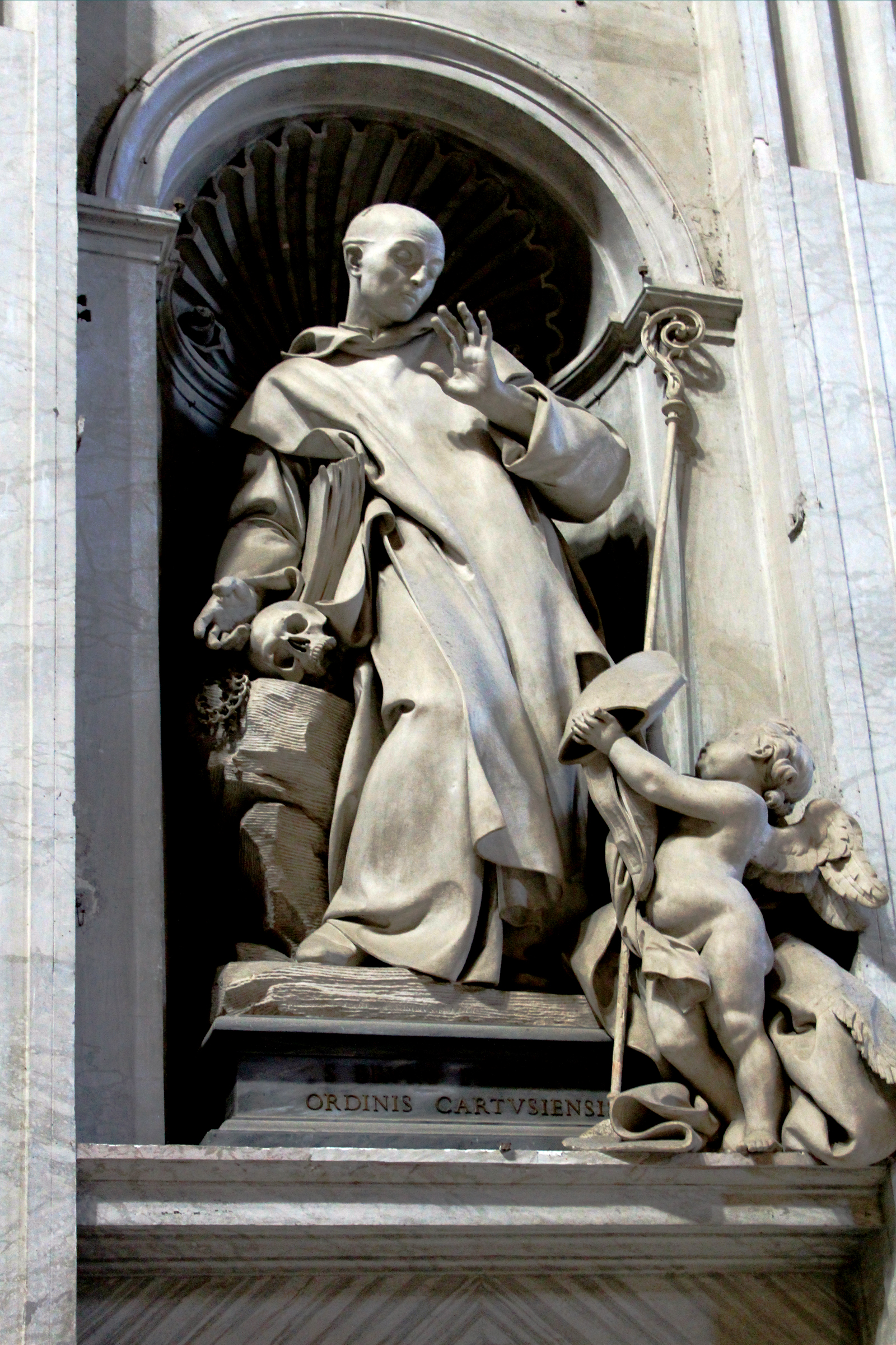 Interior of St. Peter's Basilica in Vatican City, Rome